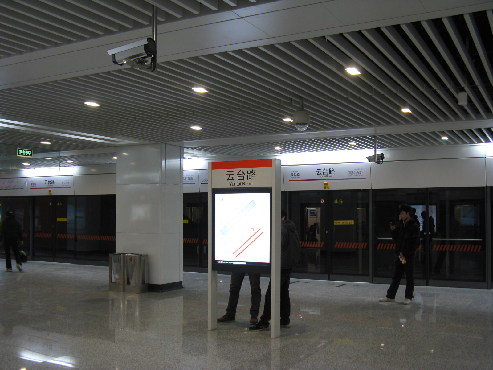 Yuntai Road Station Line7 Shanghai Metro